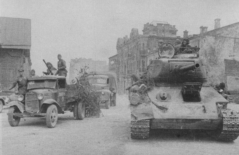 Soviet tank T-34/85 in Minsk, july 1944 (Operation Bagration)